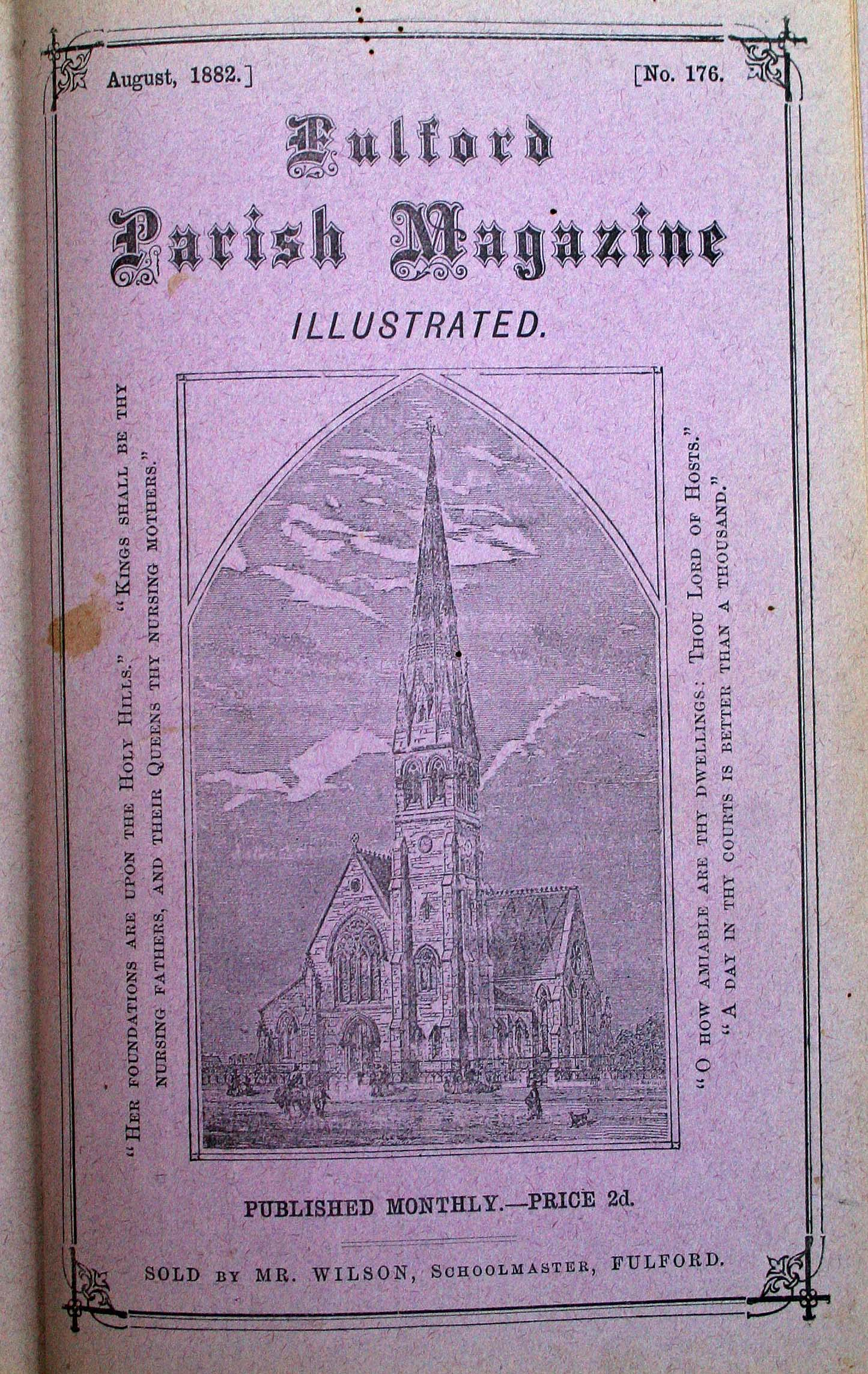 Fulford (York) Parish Magazine, August 1882, cover from within a contemporary bound volume.